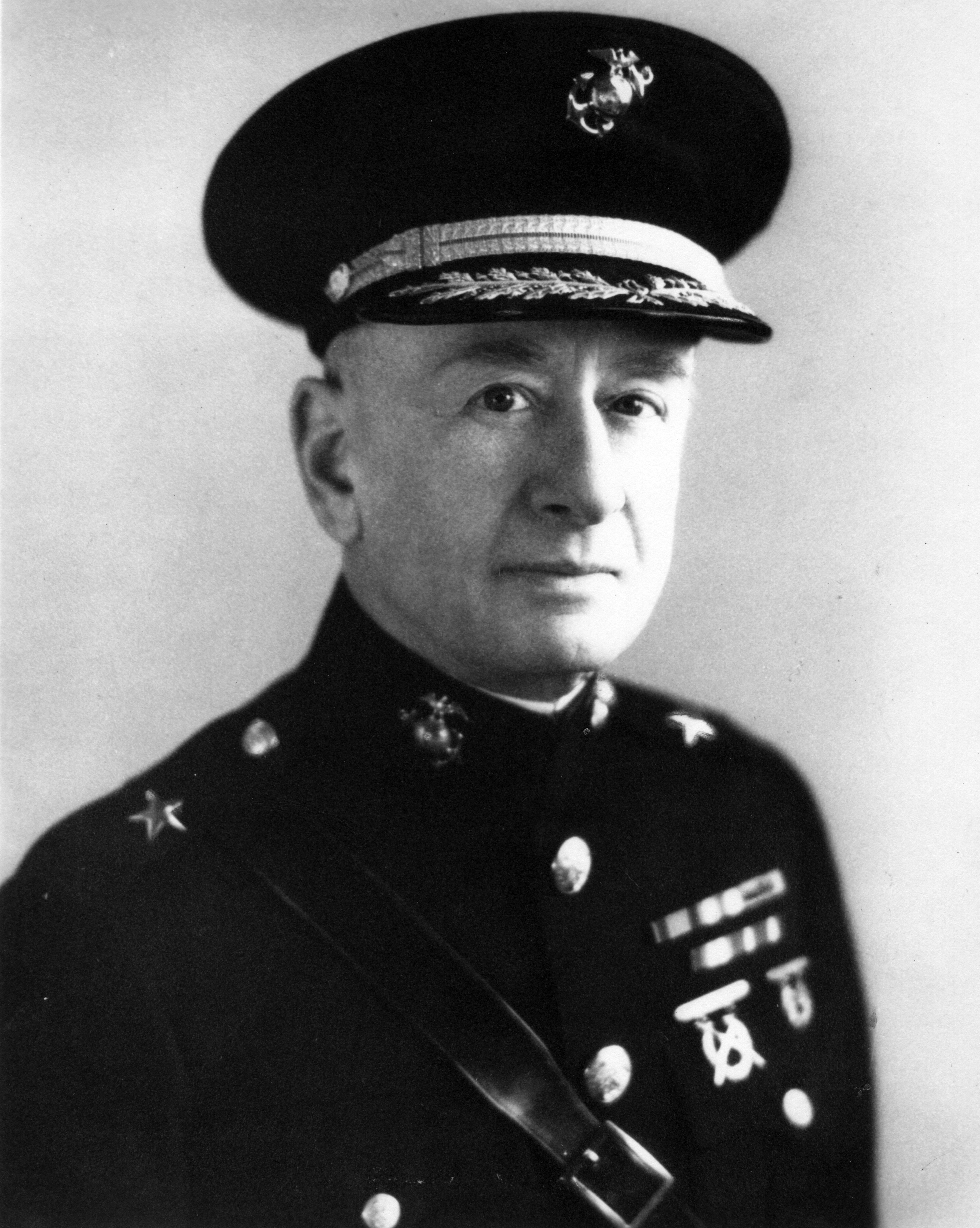 Emile Phillips Moses (May 27, 1880 - December 22, 1965) was a distinguished officer in the United States Marine Corps with the rank of Major General. A veteran of forty years of service and several expeditionary campaigns, Moses is most noted for his service as Commanding general, Marine Corps Recruit Depot Parris Island during World War II and for his efforts in the developing of Marine Corps Amphibious Warfare doctrine, especialy Landing Vehicle Tracked.